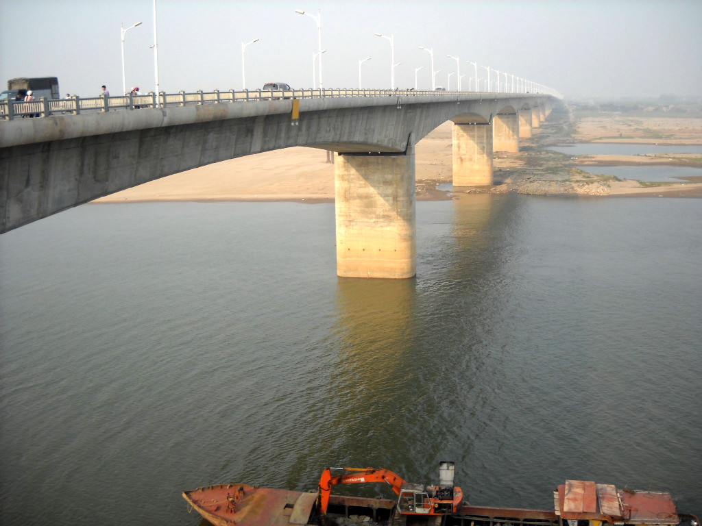 Vĩnh Tuy Bridge over Hồng River in Hà Nội, Việt Nam